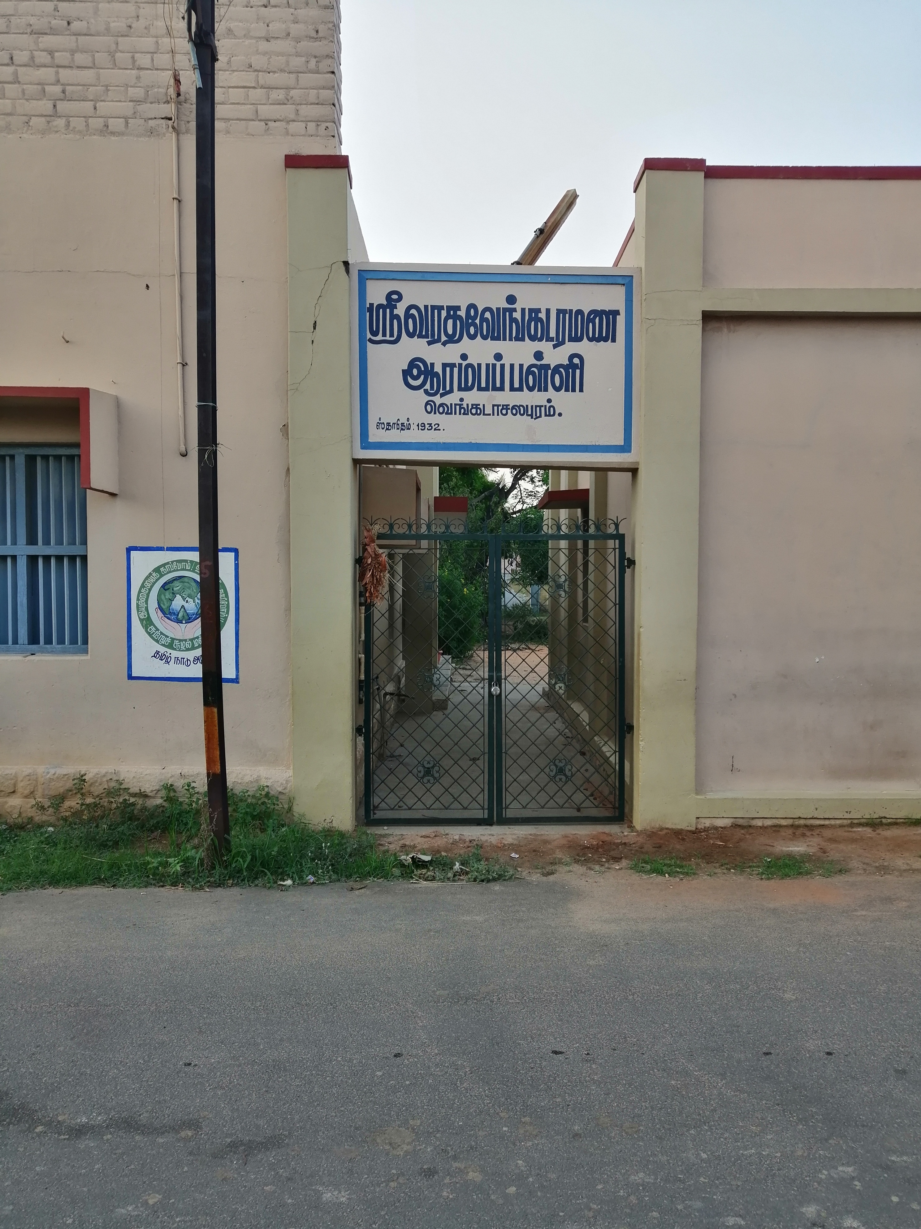 Roadside entrance of the village elementary school